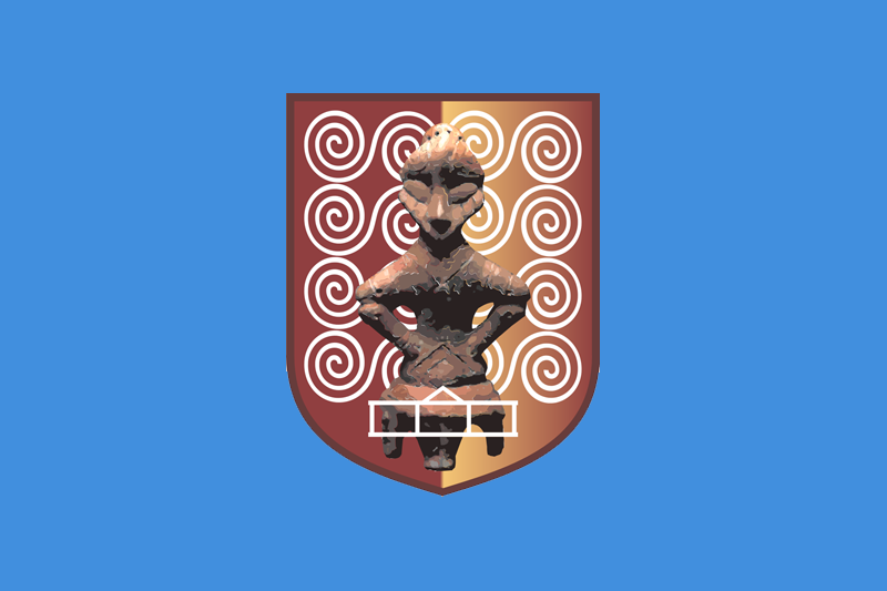 Flag of Pristina Municipality